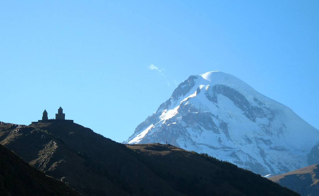 Kazbegi. Mount. Mkinvarcveri (Kazbek) 5047 m., Stefancminda district (ყაზბეგის რაიონი)